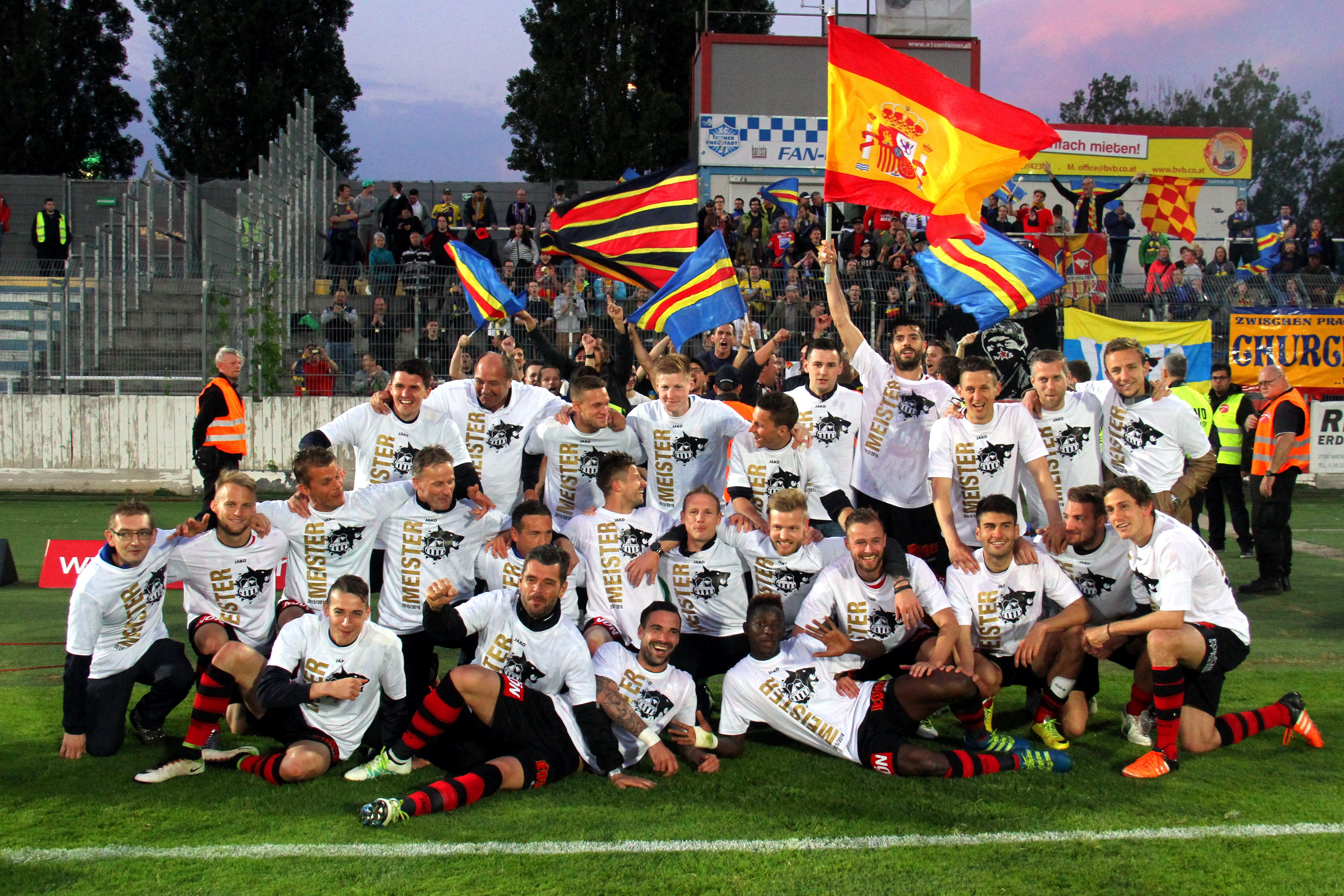 Match of the Erste Liga – SC Wiener Neustadt (blue/white shirts) vs. SKN St. Pölten (red shirts) 0–3 (0-0) on 2016-05-20 in the Stadion in Wiener Neustadt – The photo shows the team of SKN St. Pölten after winning the championship.